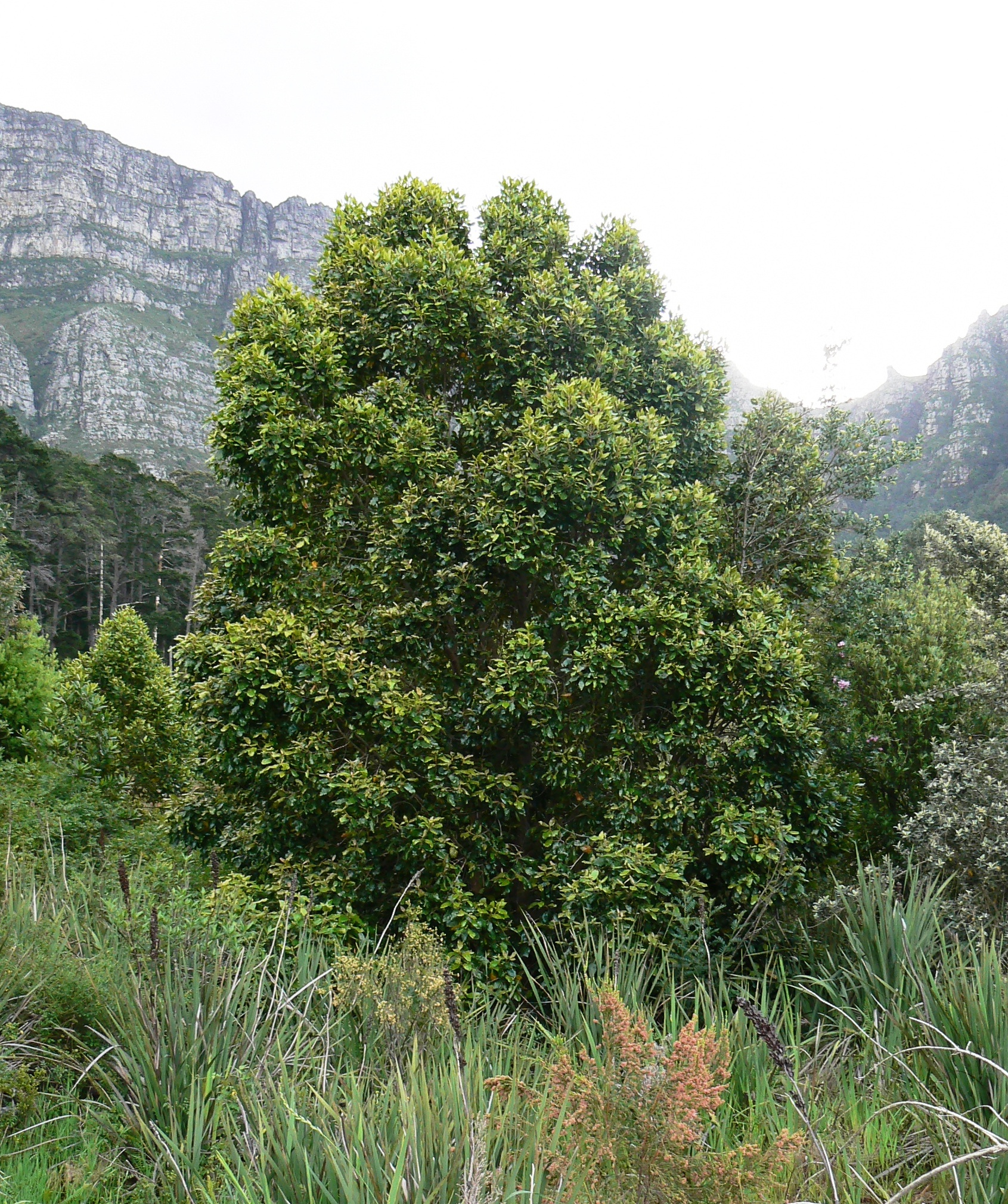 A medium sized Assegai tree. Curtisia dentata. Photo taken on the lower slopes of Table Mountain.